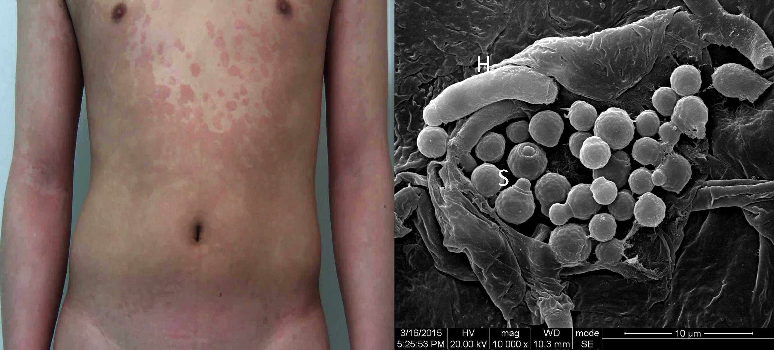 Left: A 27-year-old man presented in our clinic with extensive erythema and scaly for 6 months. Right: Under SEM, abundant of 3–5 μm in diameter grapes-like spherical Malassezia spores (S) with budding daughter cell, with collar structure around the budding, and banana-like haphae (H).